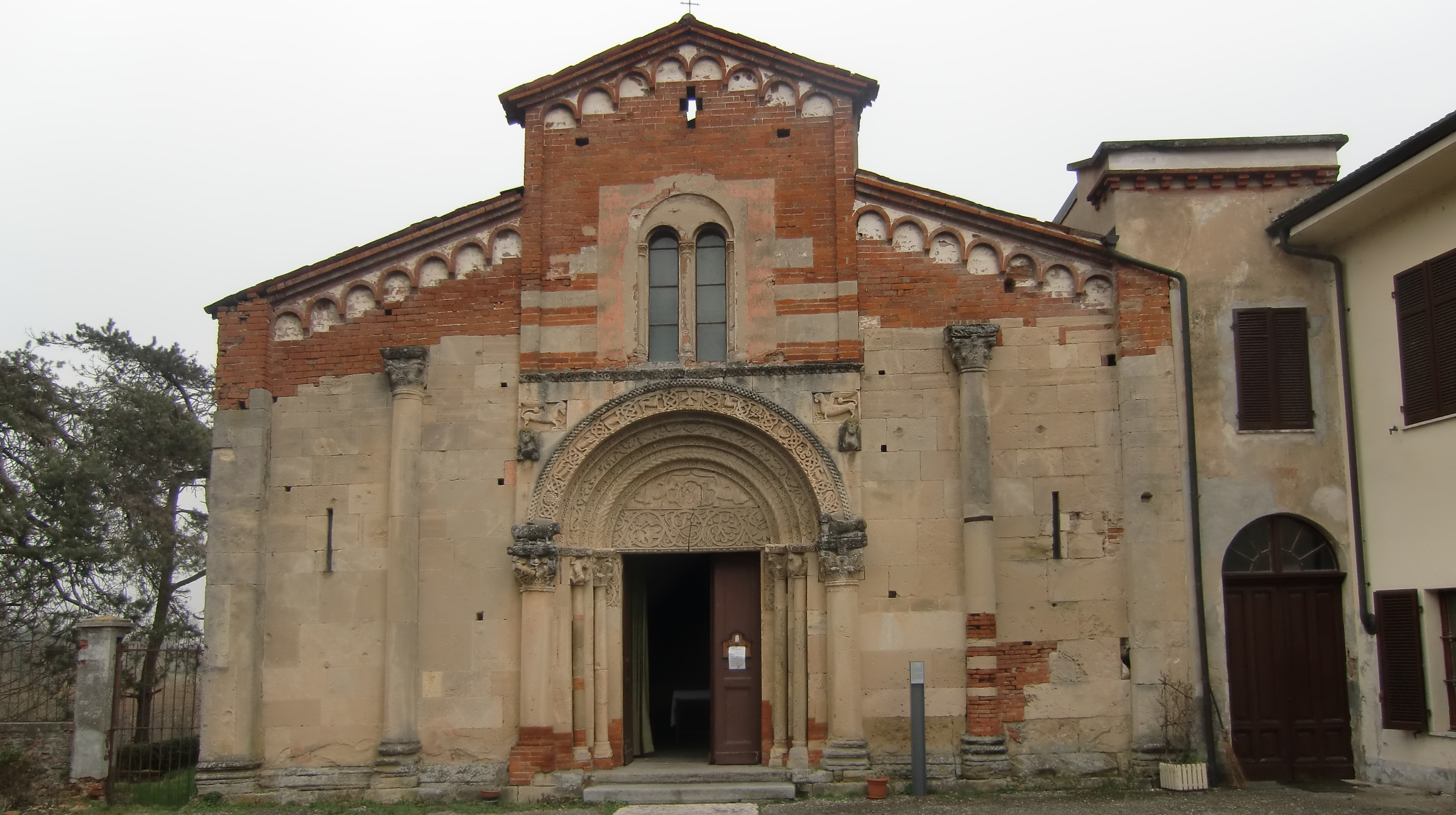 Abbey of Santa Fede in Cavagnolo (TO), Piedmont, Italy, XII century, church facade